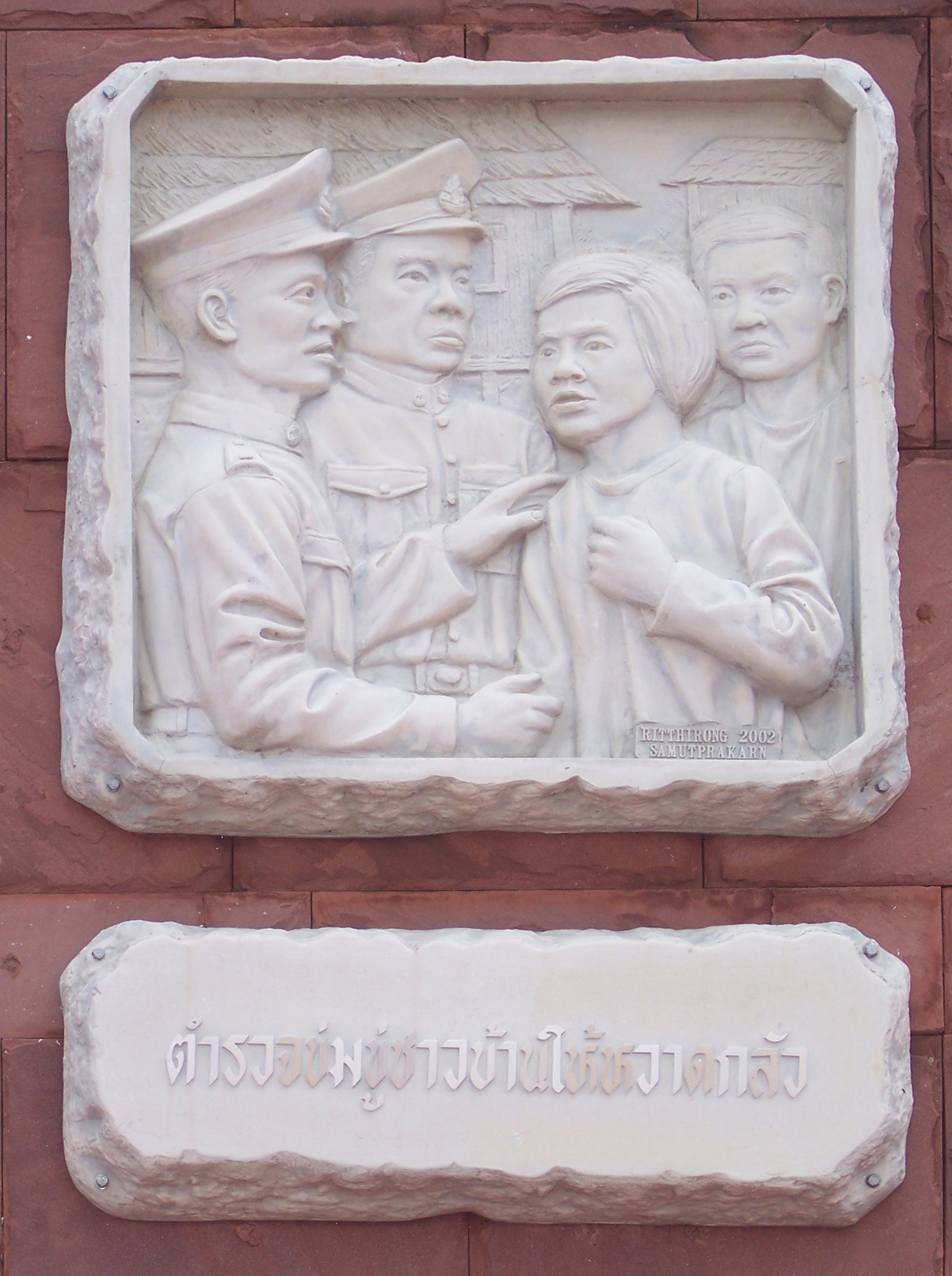 Panel 2 of a series of carved stone panels depicting the story of the Martyrs of Thailand, from the Our Lady of the Martyrs of Thailand Shrine in Mukdahan Province, Thailand.